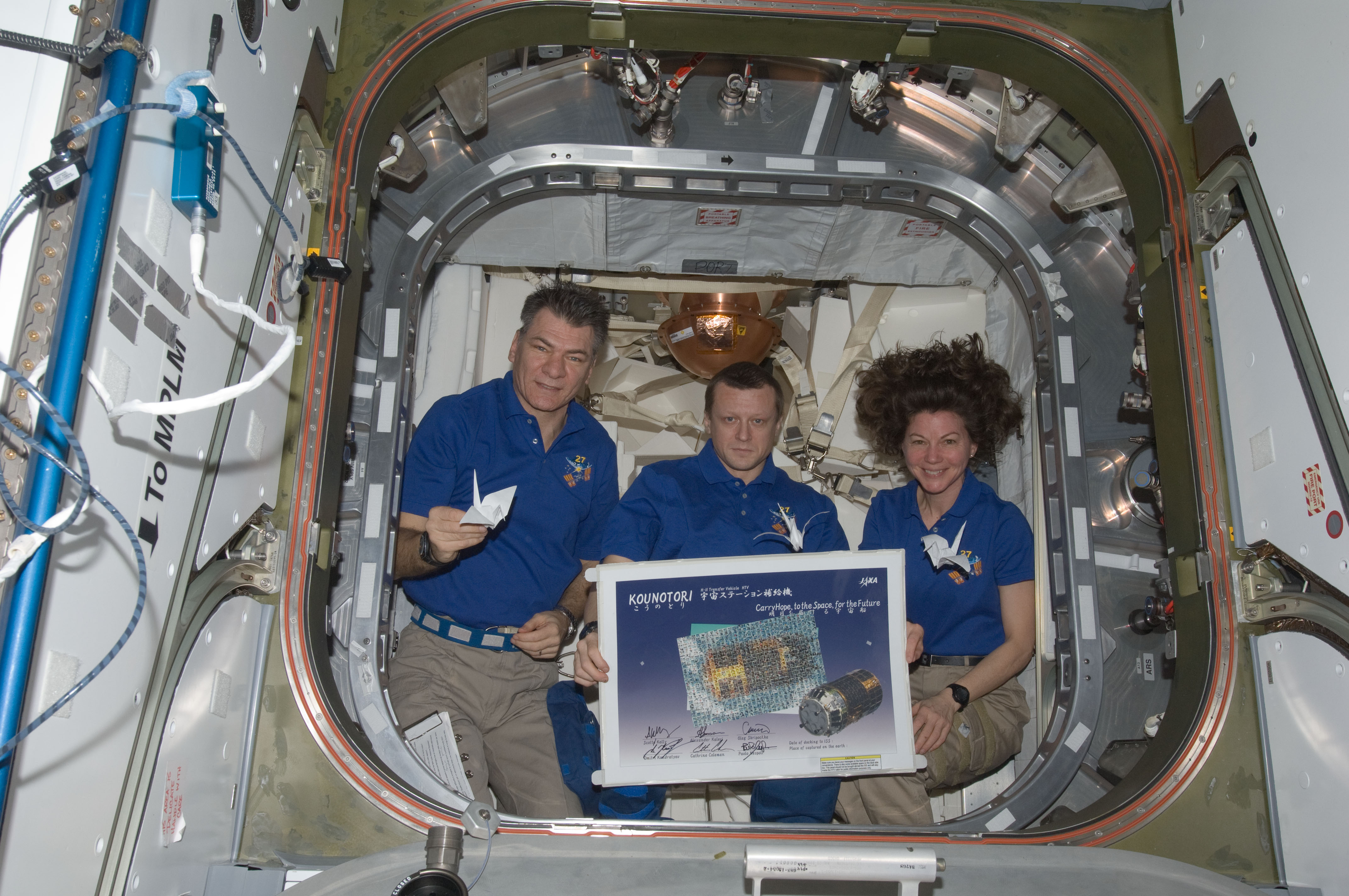 In honour of those affected by the Tohoku-Kanto Earthquake in Japan, Russian cosmonaut and Expedition 27 commander Dmitry Kondratyev (center), European Space Agency astronaut Paolo Nespoli and NASA astronaut Cady Coleman are pictured with paper cranes (origami craft), which they folded to be placed in the Kounotori2 H-II Transfer Vehicle (HTV-2). The HTV2 is scheduled to be released by the International Space Station's robotic arm at 11:45 a.m. EDT on March 28, and re-enter Earth's atmosphere on March 29, 2011.